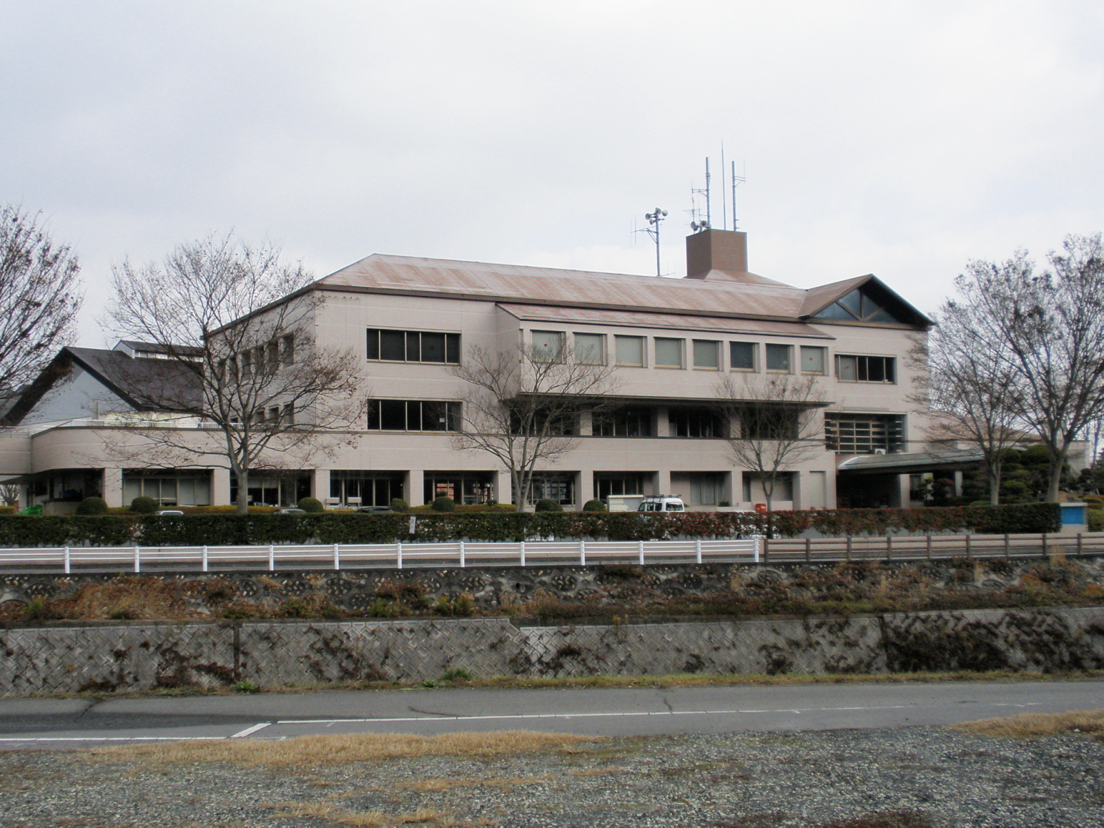 Tsuyama city office Kume branch (Former Kume town office)